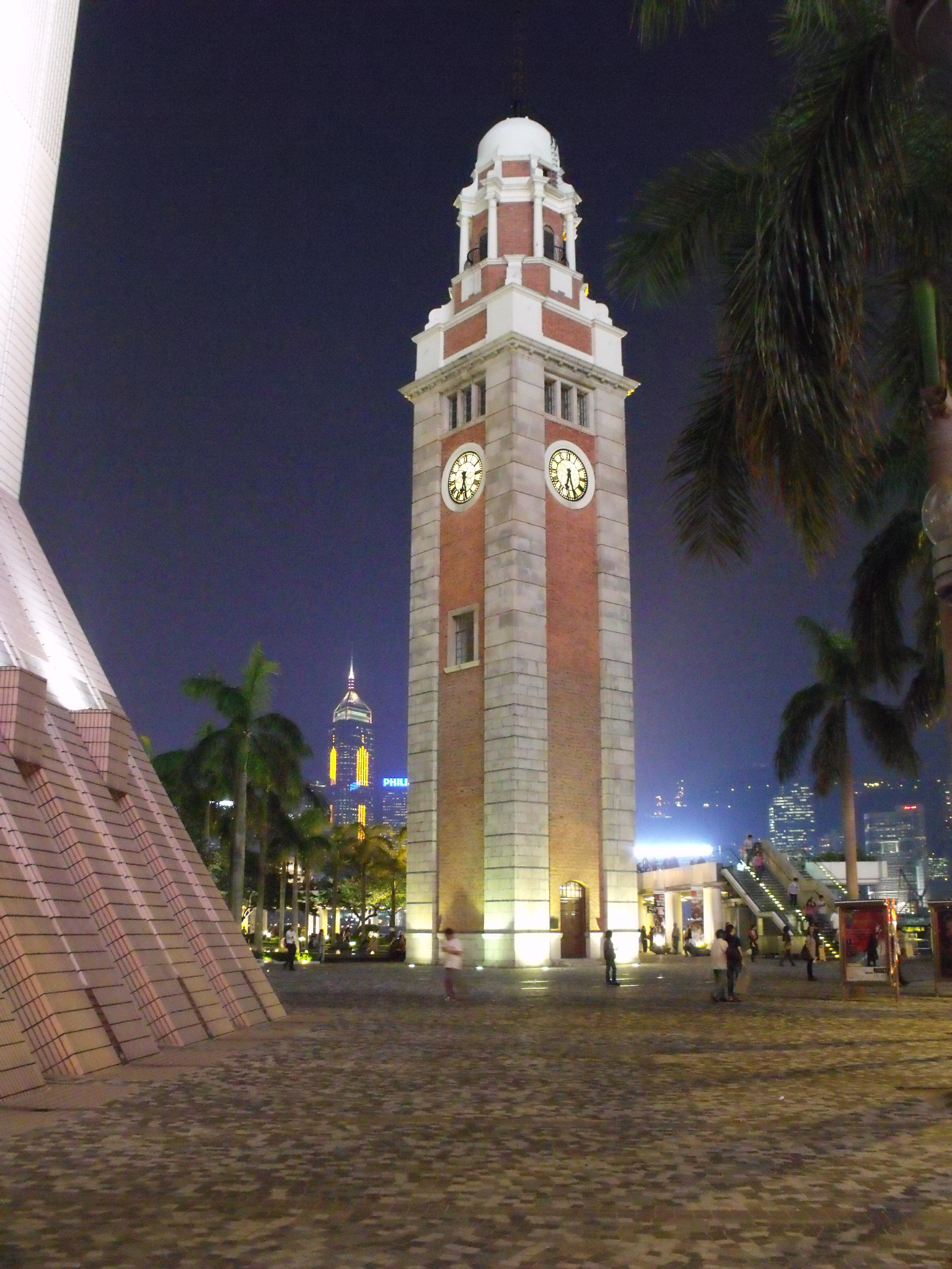 Clock Tower beside the Star Ferry pier and teh Cultural Centre at Kowloon